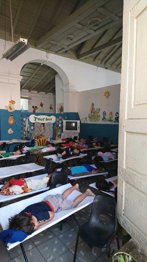 Children sleeping in the schools in Trinidad de Cuba